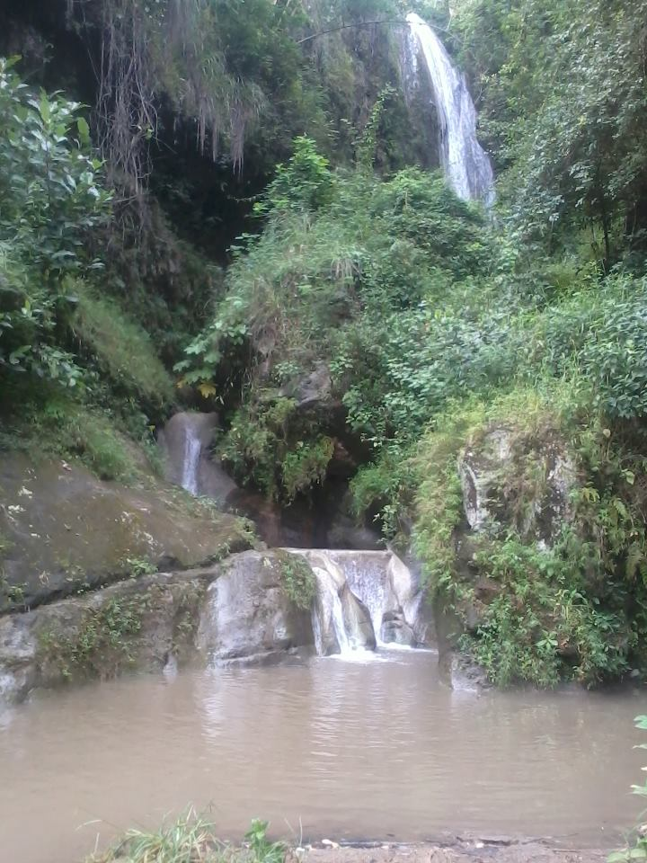 waterfall